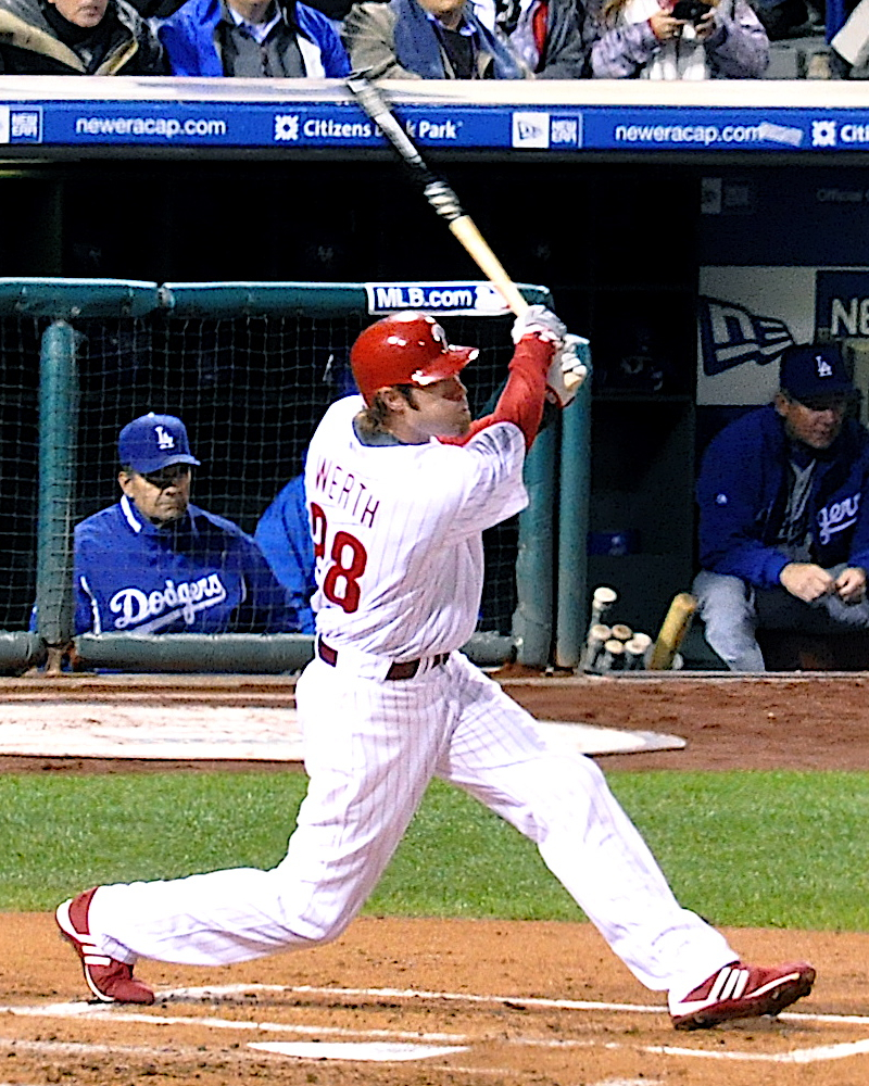 Jayson Werth